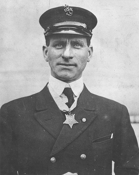 Chief Boatswain's Mate John MacKenzie, United States Navy Reserve, wearing the Medal of Honor he received in recognition of his heroism in securing a depth charge that had come adrift on board USS Remlik (SP-157) during a heavy gale on 17 December 1917.